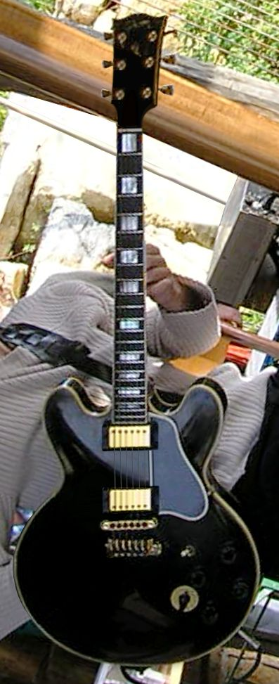 Gibson ES-345 It may be Gibson Lucille or similar model, because it lacks f-holes on ES-345/ES-355, and has large block maker similar to Lucille.